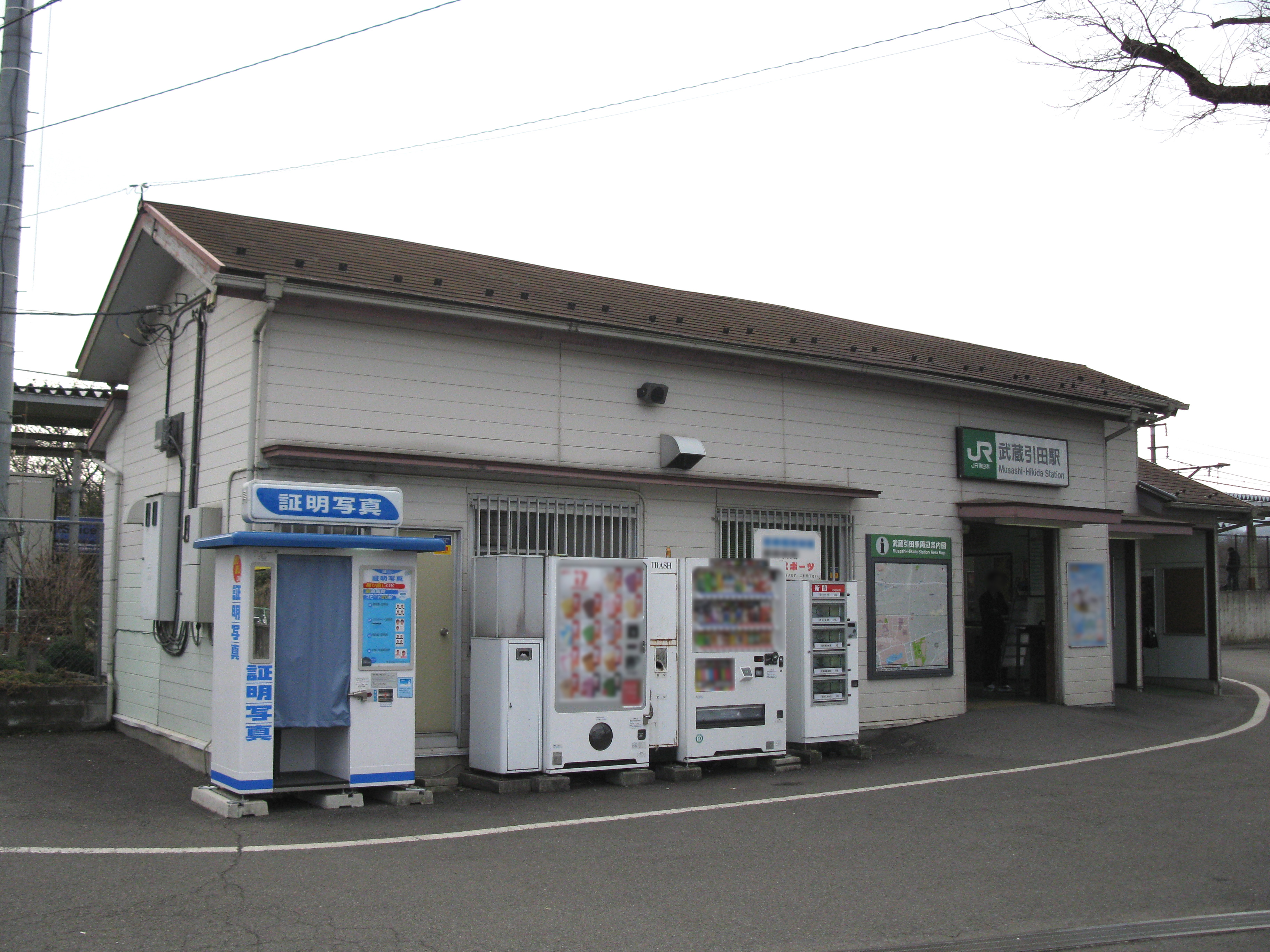 Musashi-Hikida Station building (East Japan Railway Itsukaichi Line)